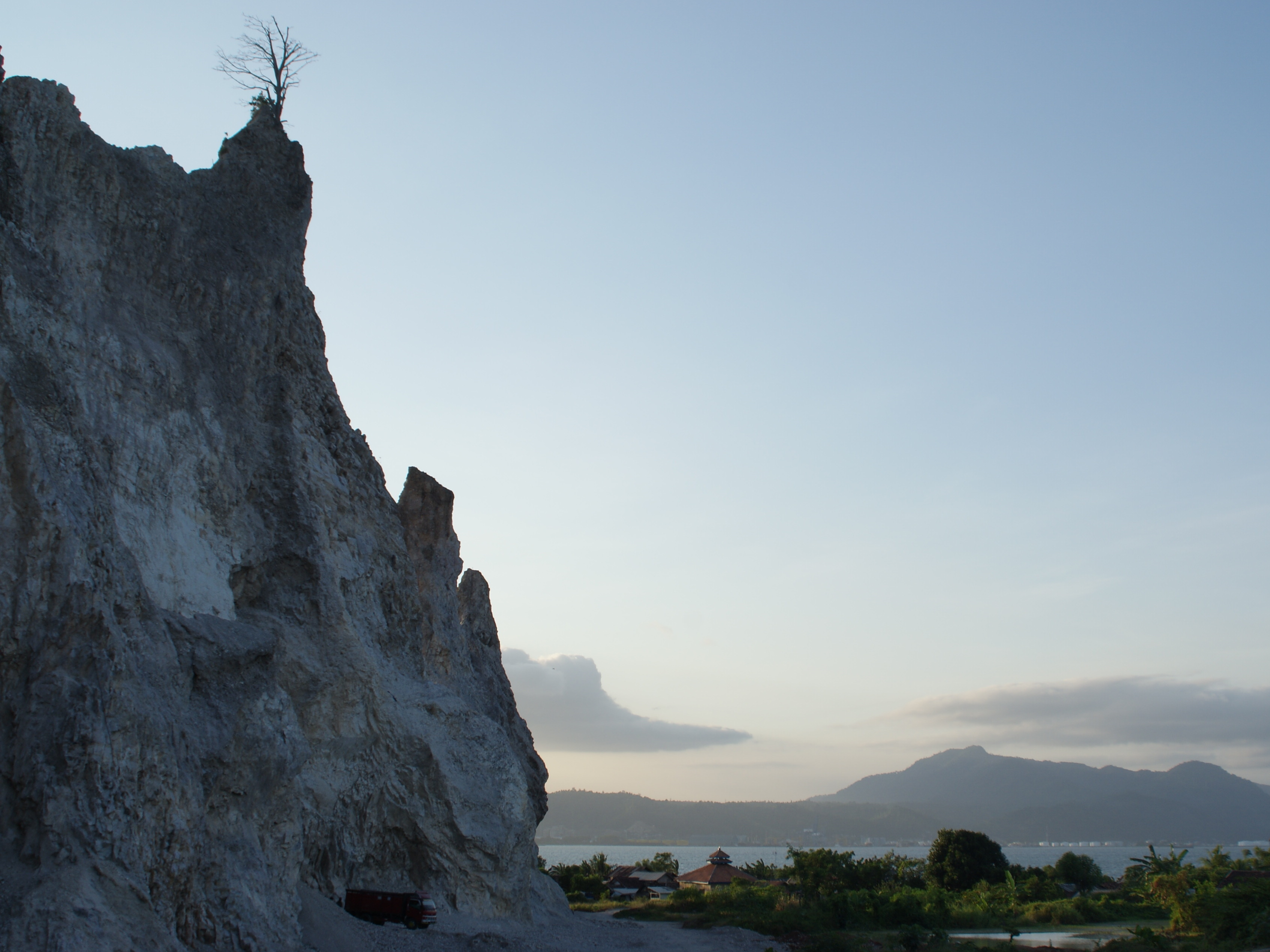 Mount Kunyit and Lampung Bay, Bandar Lampung, Indonesia